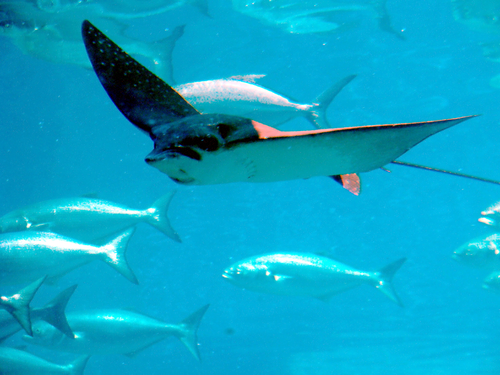 Spotted eagle ray (Aetobatus narinari) at Ushaka Marine World